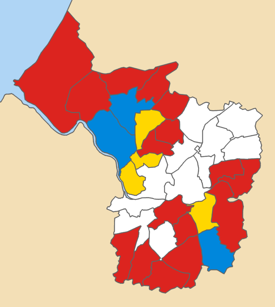 Results of the 1997 local elections in Bristol Colours: Conservative Labour Liberal Democrat No election in 1997